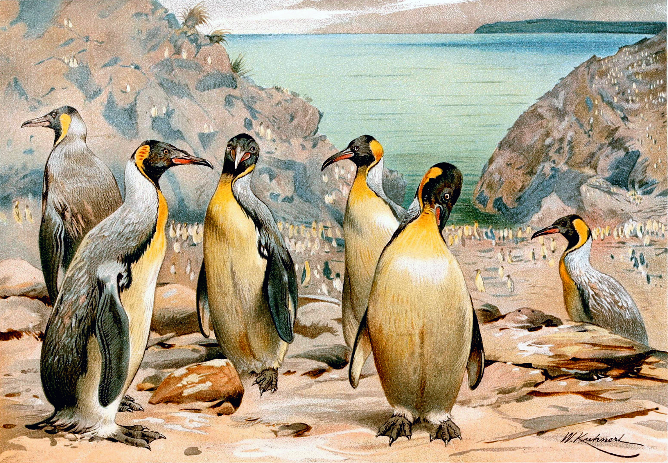 A reconstruction of New Zealand Giant Penguins (Pachydyptes ponderosus)